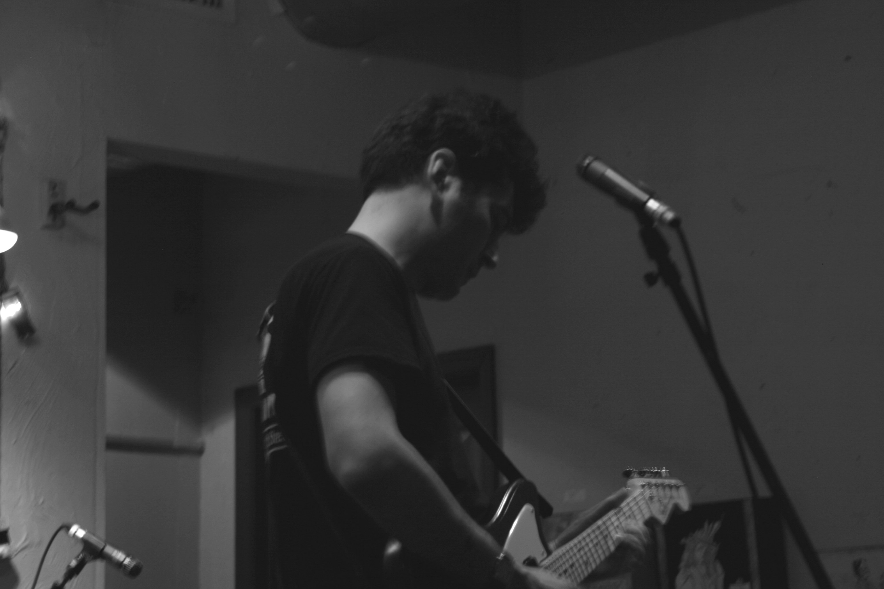 Skip Heller @ The Family Wash, 04.13.07